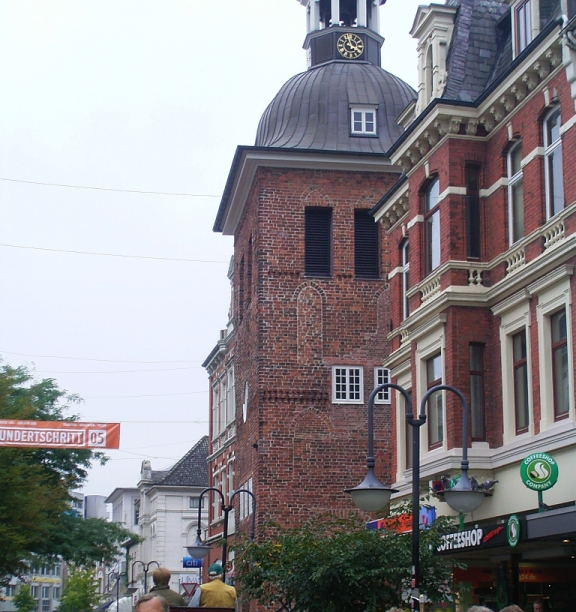 The "Lappan", famous landmark in Oldenburg (Oldb) in Germany.